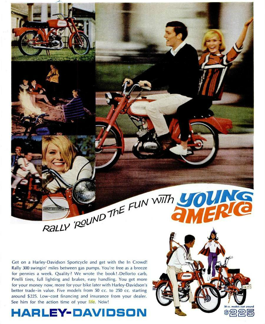 Ad for Harley-Davidson's Sportcycle. Note this was originally licensed as non free promotional. There are no copyright marks on the full pages of the ad, as can be seen at the link above. The page is clearly an advertisement, so it is not a part of any magazine copyrights. US Copyright Office page 3-magazines are collective works (PDF) "A notice for the collective work will not serve as the notice for advertisements inserted on behalf of persons other than the copyright owner of the collective work. These advertisements should each bear a separate notice in the name of the copyright owner of the advertisement."